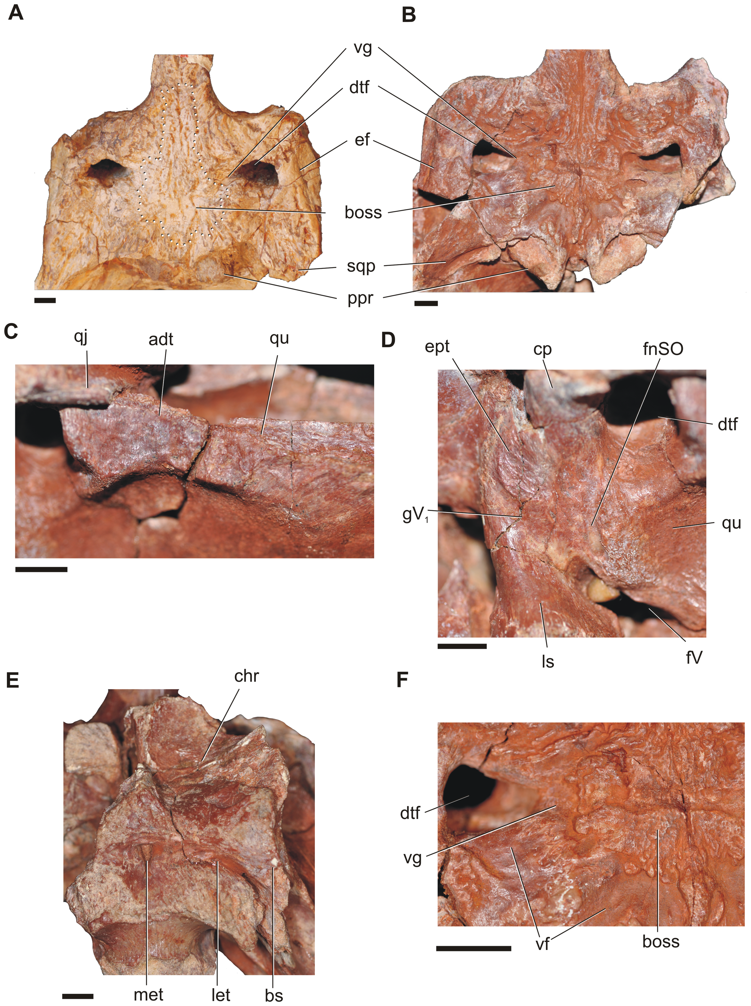 Osteological correlates in Aegisuchus witmeri. A, dorsal view of Aegyptosuchus peyeri illustrating less-distinct cranial boss. B, dorsal view of Aegisuchus witmeri with distinct integumentary boss surrounded by vascular fossa. C, left lateral view of hypertrophied jaw muscle scar and adductor tubercle on the rostrolateral surface of the quadrate. D, left lateral view of isolated epipterygoid and trigeminal foramen. E, left, lateral view of temporal region with passages for important neuromuscular structures with insets for C, D. F, dorsal view highlighting reconstructed vasculature and musculature of the skull roof and occipital region. Abbreviations: adt, adductor tubercle; boss, integumentary boss; bs, basisphenoid; chr, choanal recess; cp, capitate process; dtf dorsotemporal fenestra; eam, external acoustic meatus; ef, fossa for external ear flap; ept, epipterygoid; fV, trigeminal foramen; fnSO, supraorbital nerve foramen; gV1, ophthalmic groove; let, lateral Eustachian tube; ls, laterosphenoid; met, median Eustachian tube; ppr, postoccipital protuberance; qj, quadratojugal; qu, quadrate; sqp, squamosal prong; vf, vascular fossa; vg, vascular groove.